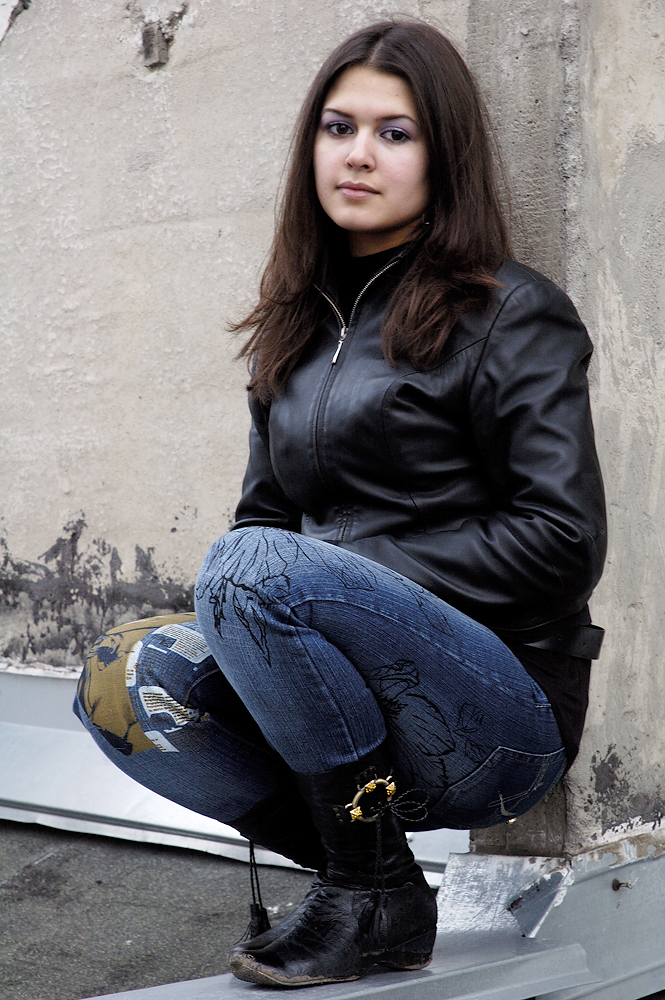 Elektrostal. Photographs girl. Eyes, look, eyelashes. Girl with long hair.